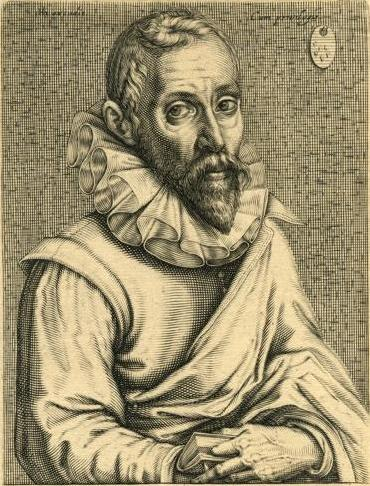 Portrait of Gillis van Coninxloo